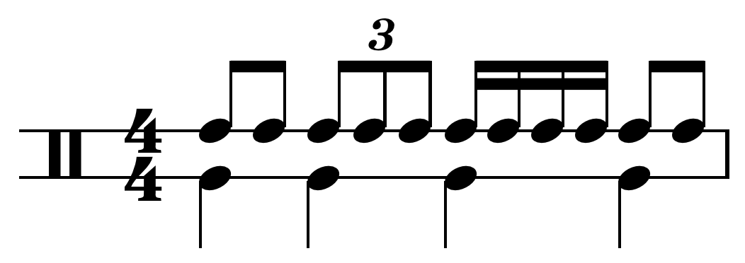 Irrational rhythm: triplet above second beat features three rather than the usual two equal divisions of the beat, while the four sixteenth notes above the third beat are rational, four being a multiple of two.